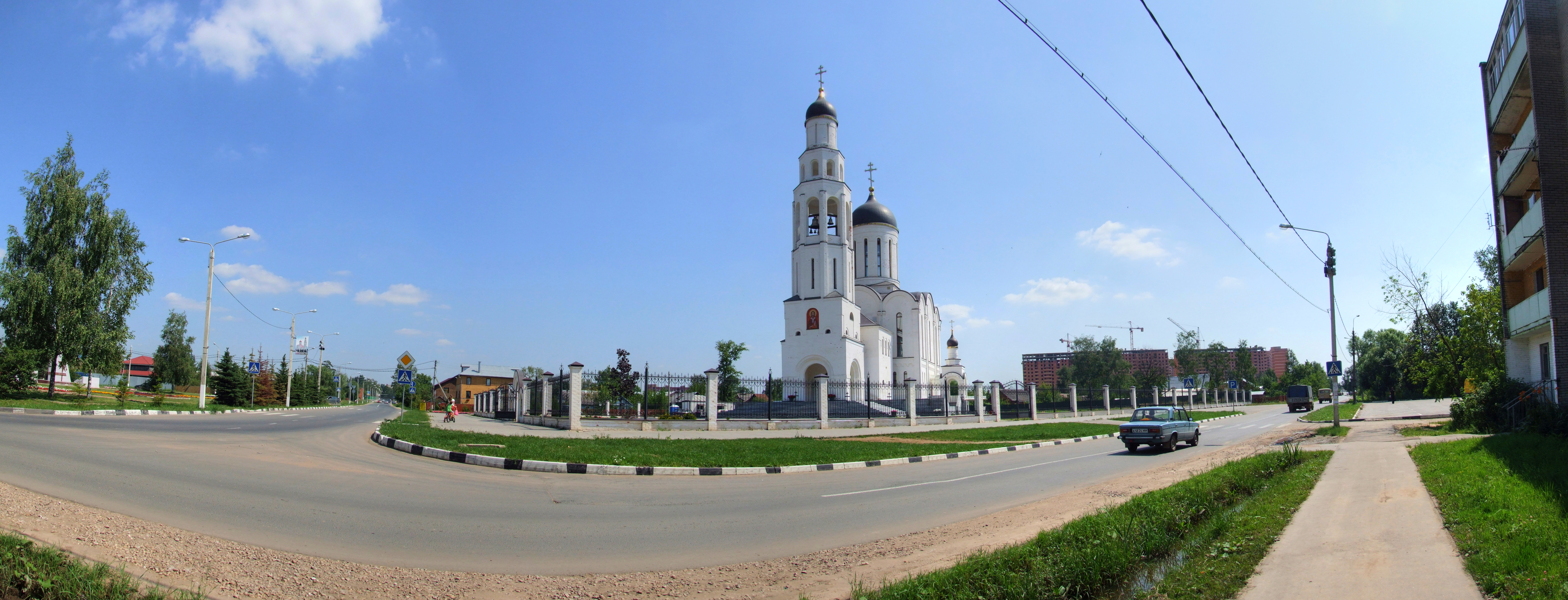 Aprelevka, Moscow Oblast, Russia